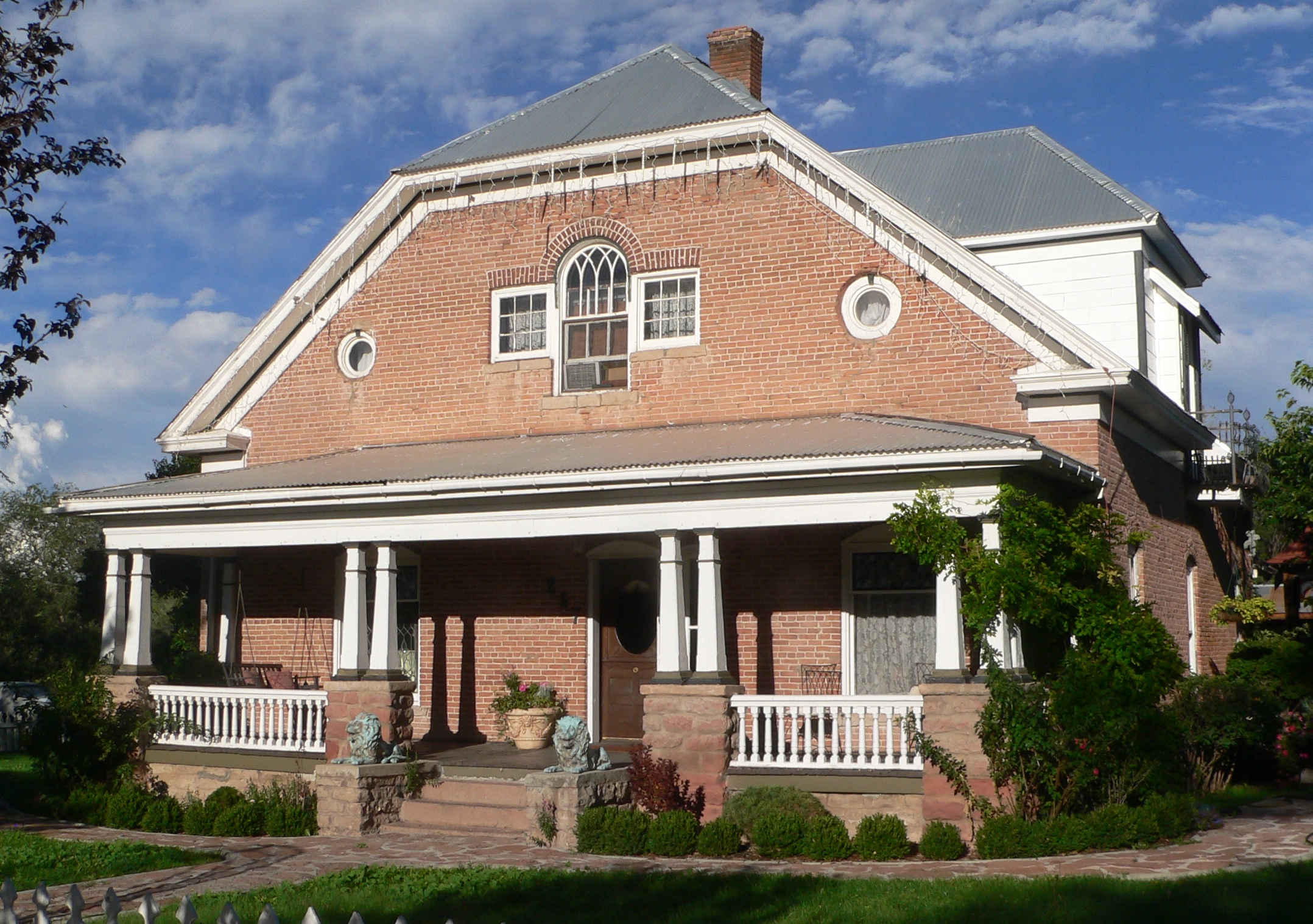 William La Sueur house, at 287 N. Main Street in Eagar, Arizona. The house is a contributing property in the Eagar Townsite Historic District, listed in the National Register of Historic Places.